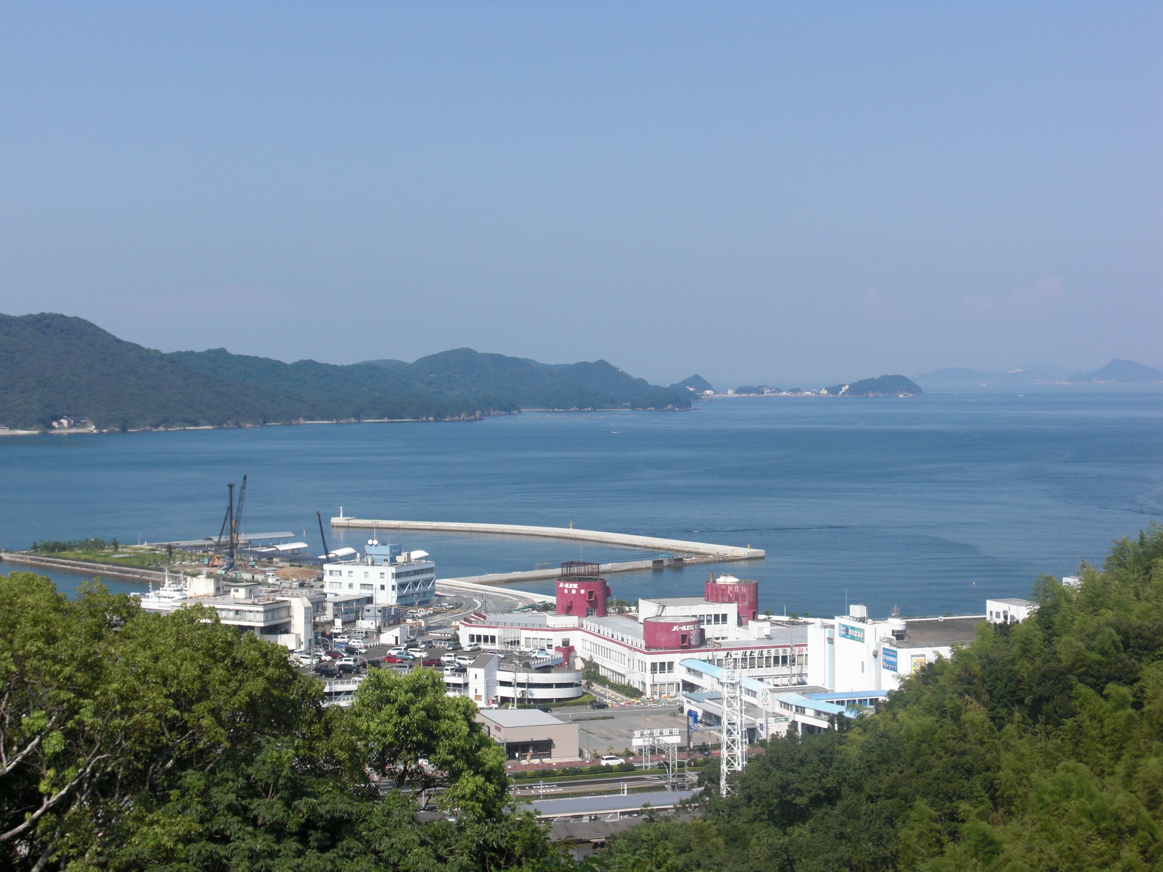 This is a scene of Toba 1 chome from Mt. Hiyori, which is located in Toba, Mie, japan.